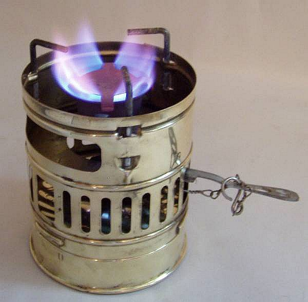 Svea 123R stove with windscreen and adjusting key.